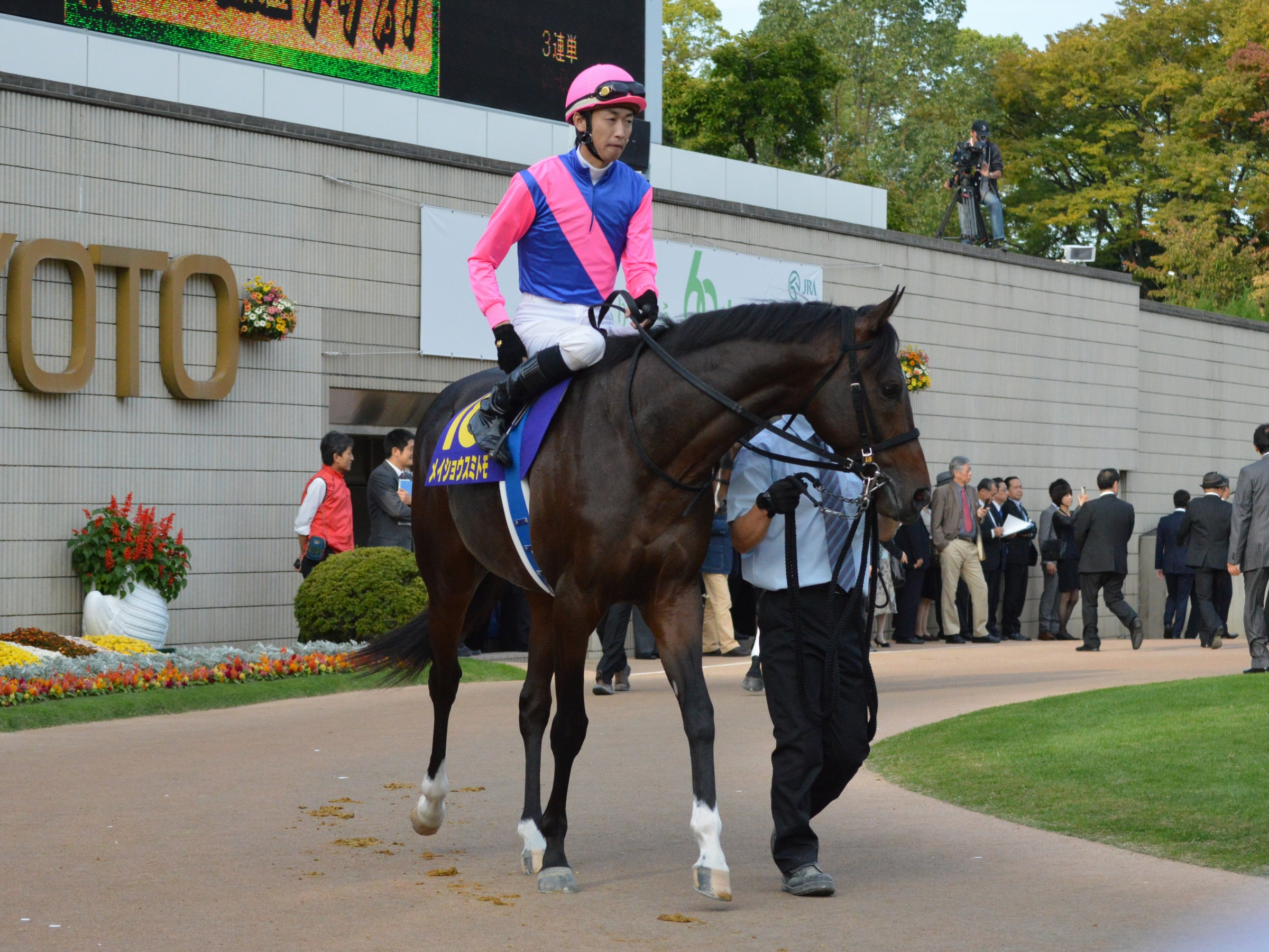 Japanese race horse Meisyo Sumitomo at Kyoto racecourse. Kyoto (JPN) 26 Oct 2014 Kikuka Sho (Japanese St.Leger) (Grade 1) (3yo Colts & Fillies) (Turf) 1m7f Firm RankHorse NameOddsAgeWgtTrainerJockey1stToho Jackal (JPN)59/10C39-0Kiyoshi TaniManabu Sakai2ndSounds Of Earth (JPN)76/10C39-0Kenichi FujiokaMasayoshi Ebina3rdGold Actor (JPN)186/10C39-0Tadashige NakagawaHayato Yoshida4th-13th , 15th-18th/omission14thMeisyo Sumitomo (JPN)1919/10C39-0Katsumi MinaiKoshiro Take